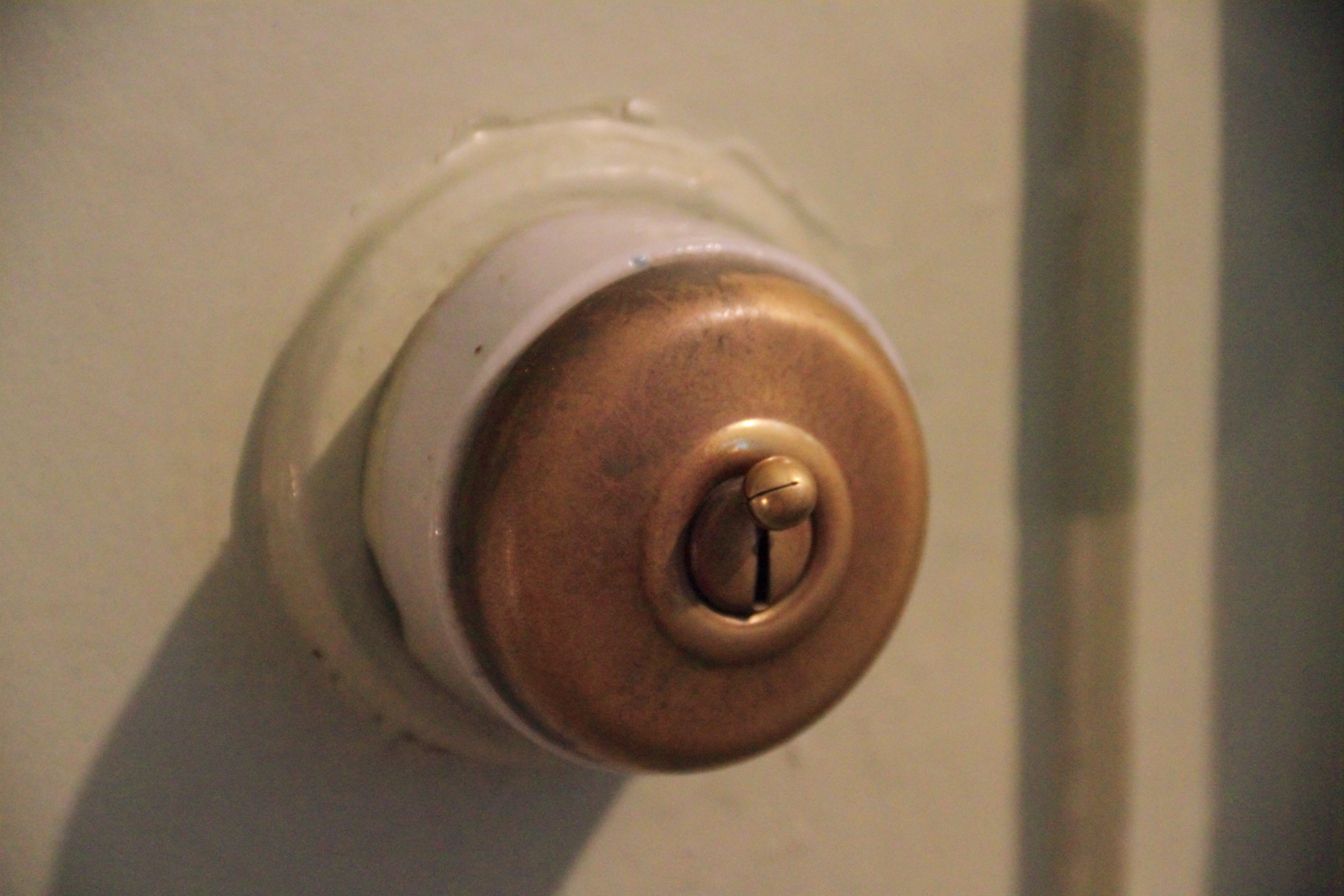 Light switch in the house of Claude Monet at Giverny.